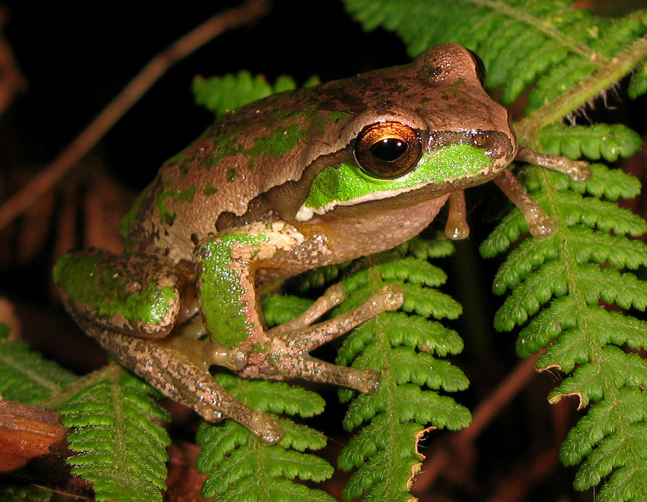 The New England Tree Frog (Litoria subglandulosa). Because this photograph concerns a rare and/or protected species, only an approximate location is provided: Ebor, Australia